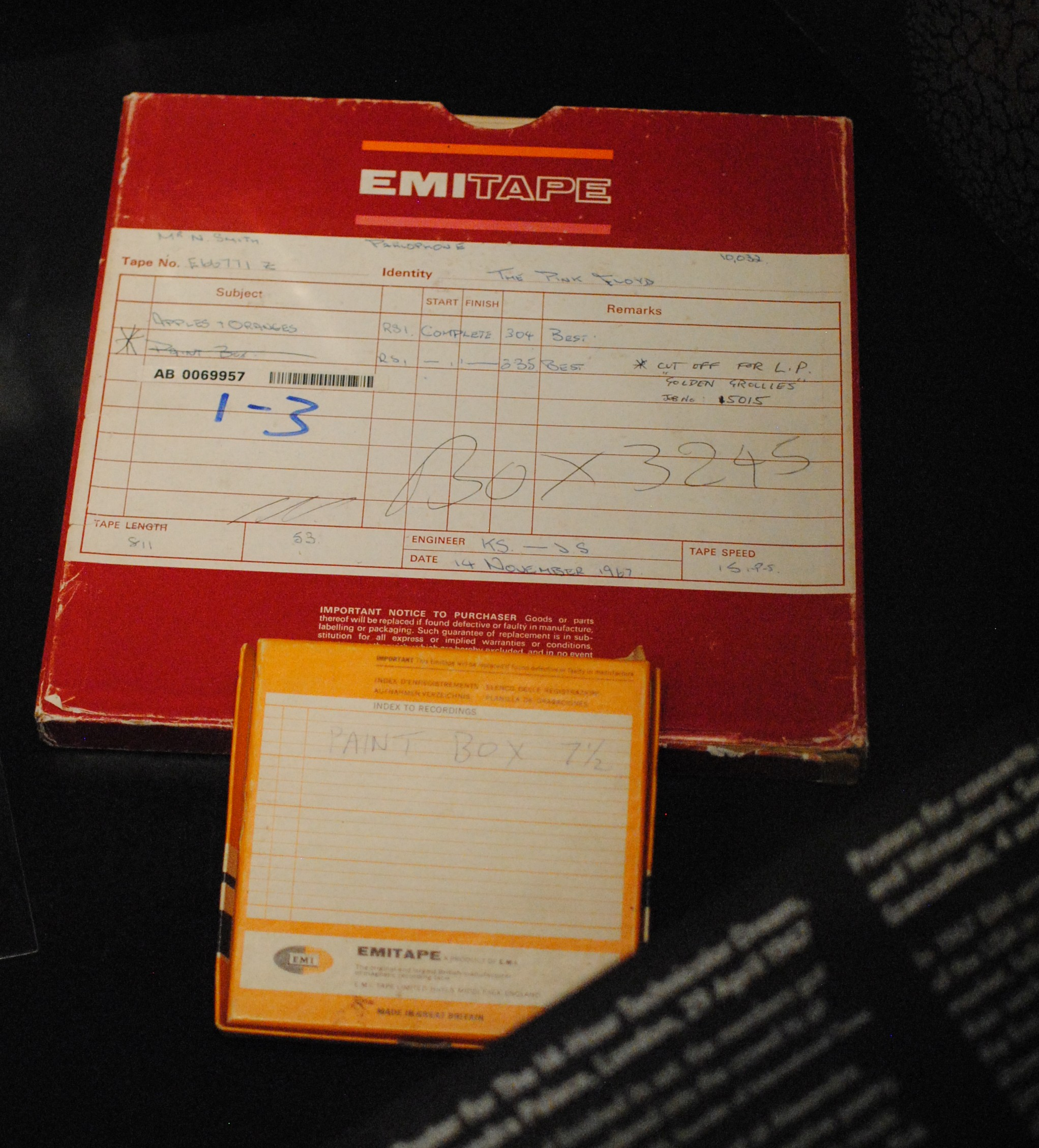 displayed at the Pink Floyd: Their Mortal Remains exhibition at the Victoria and Albert Museum.